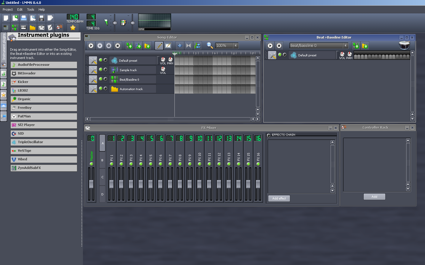 A screen Shot of LMMS 0.4.0